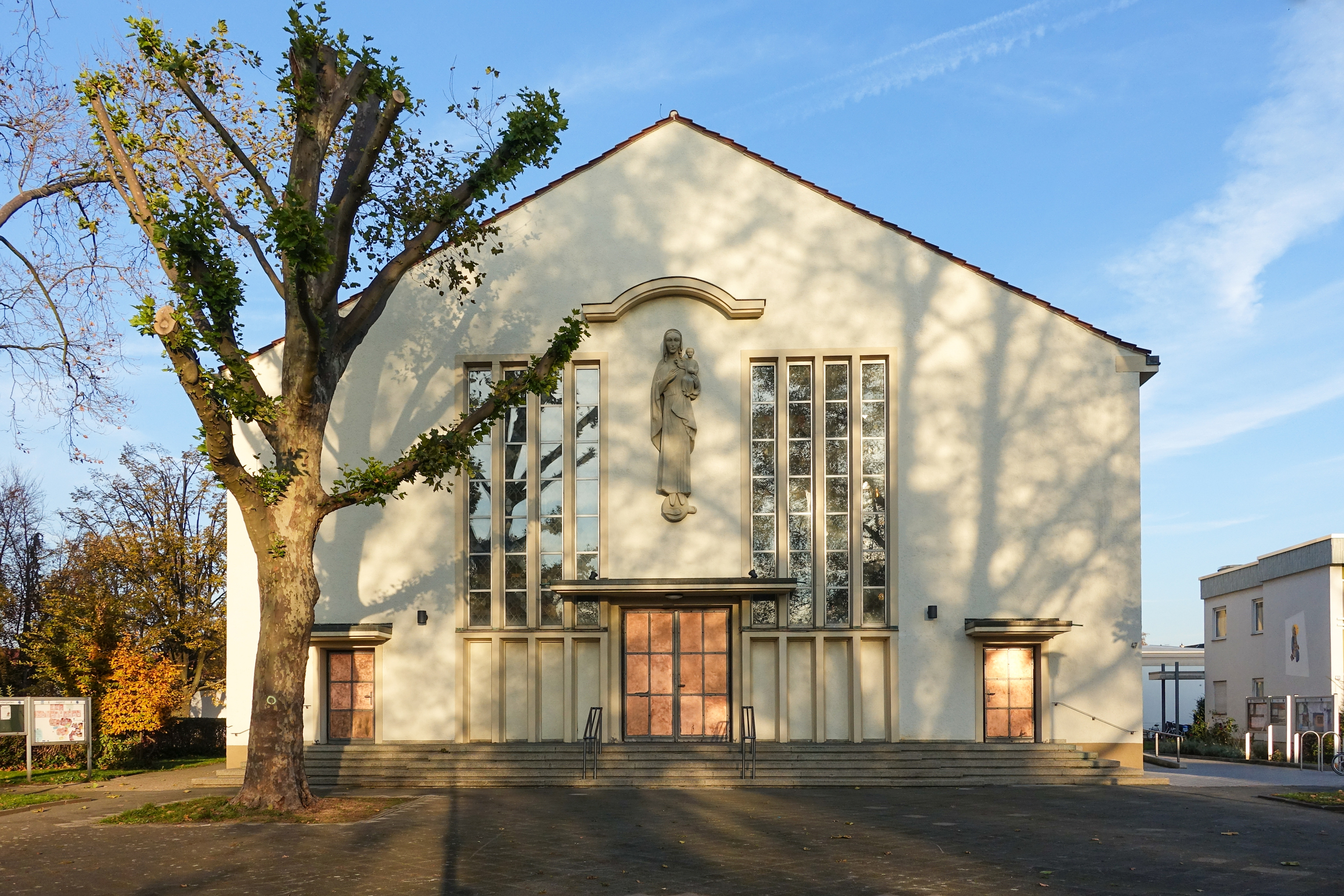 Mary Help Church, Mannheim-Almenhof, West side with entrance and Maria sculpture